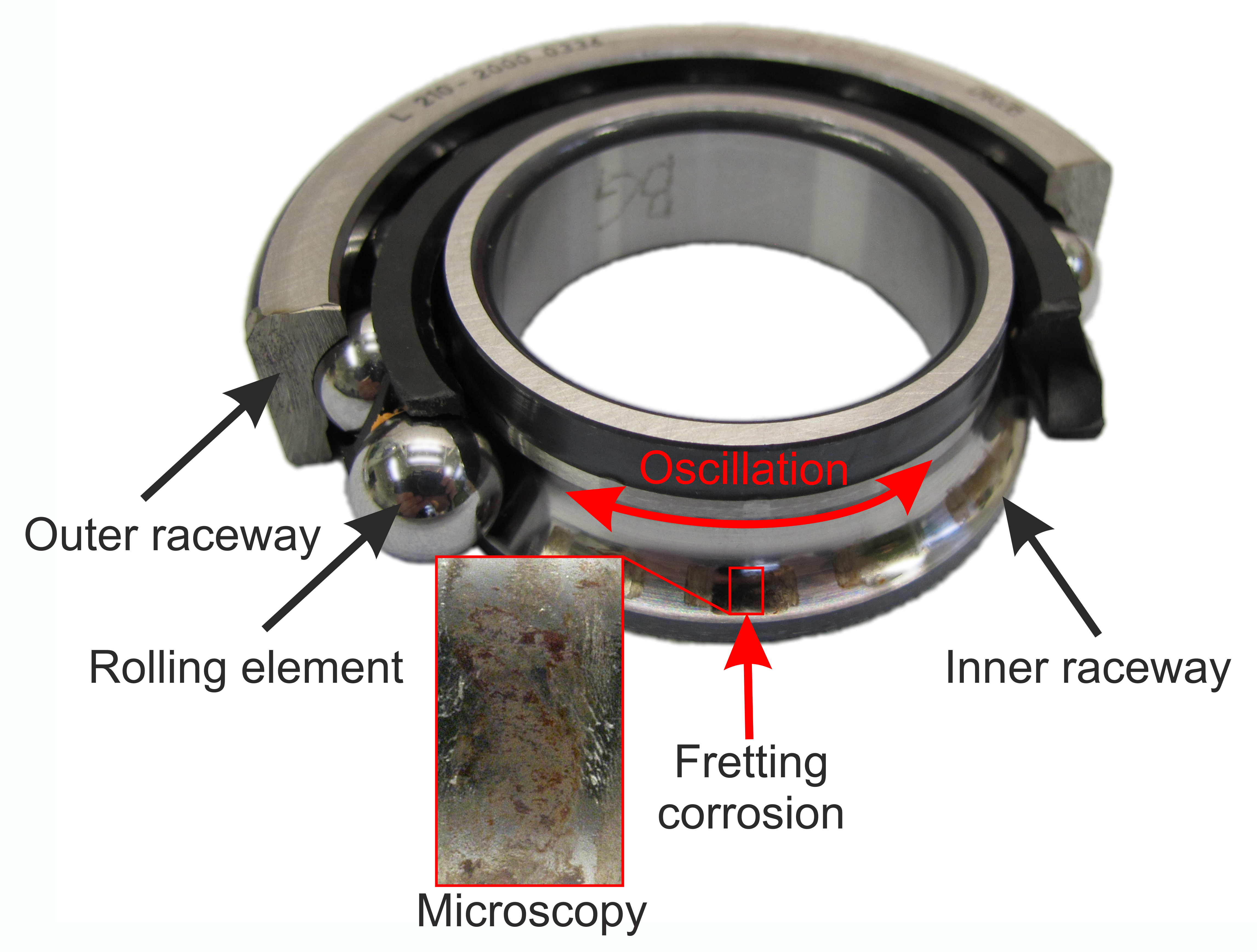 Fretting corrosion on the inner raceway of a ball bearing